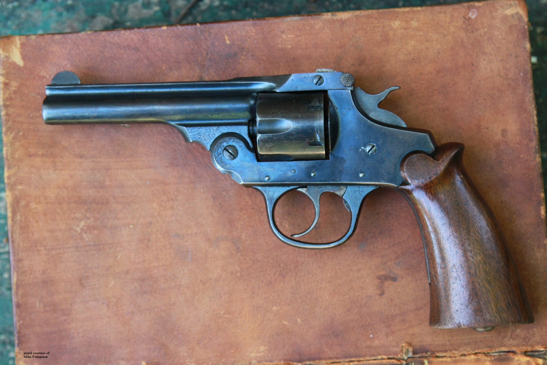 Iver Johnson Safety Automatic "New Model" Mid 20th century Calibers .22/.32 Long/ .38 S&W. This variation with the pictured "Western" grips was catalogued in the 1940 Shooter's Bible.